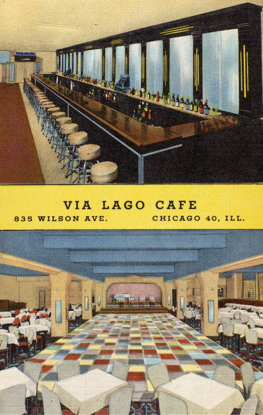 Via Largo Cafe, shows bar area and illuminated glass dance floor